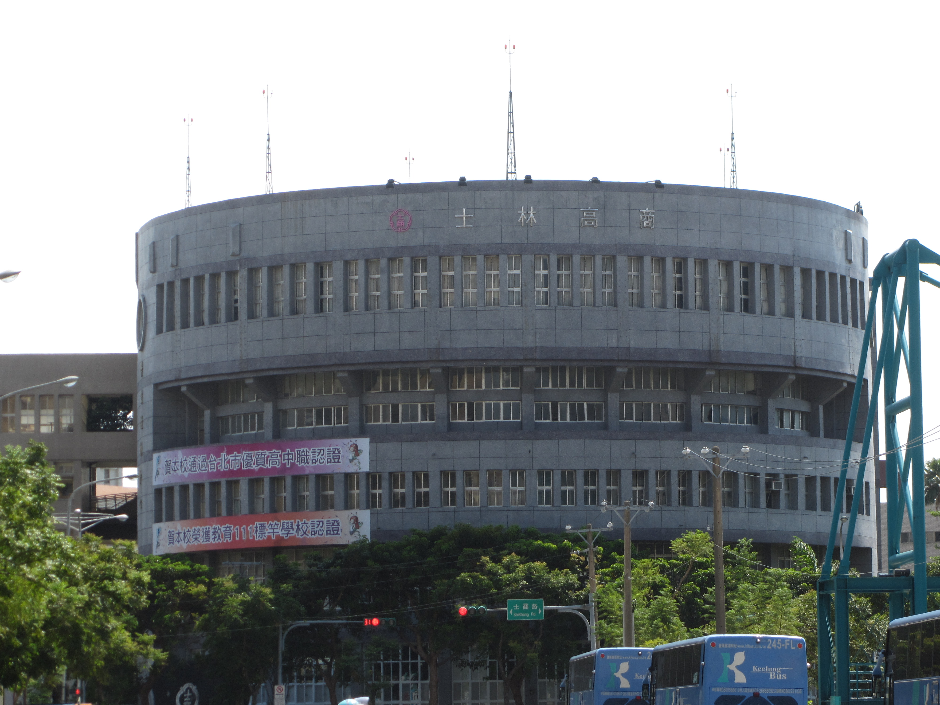 Taipei Municipal Shilin High School of Commerce